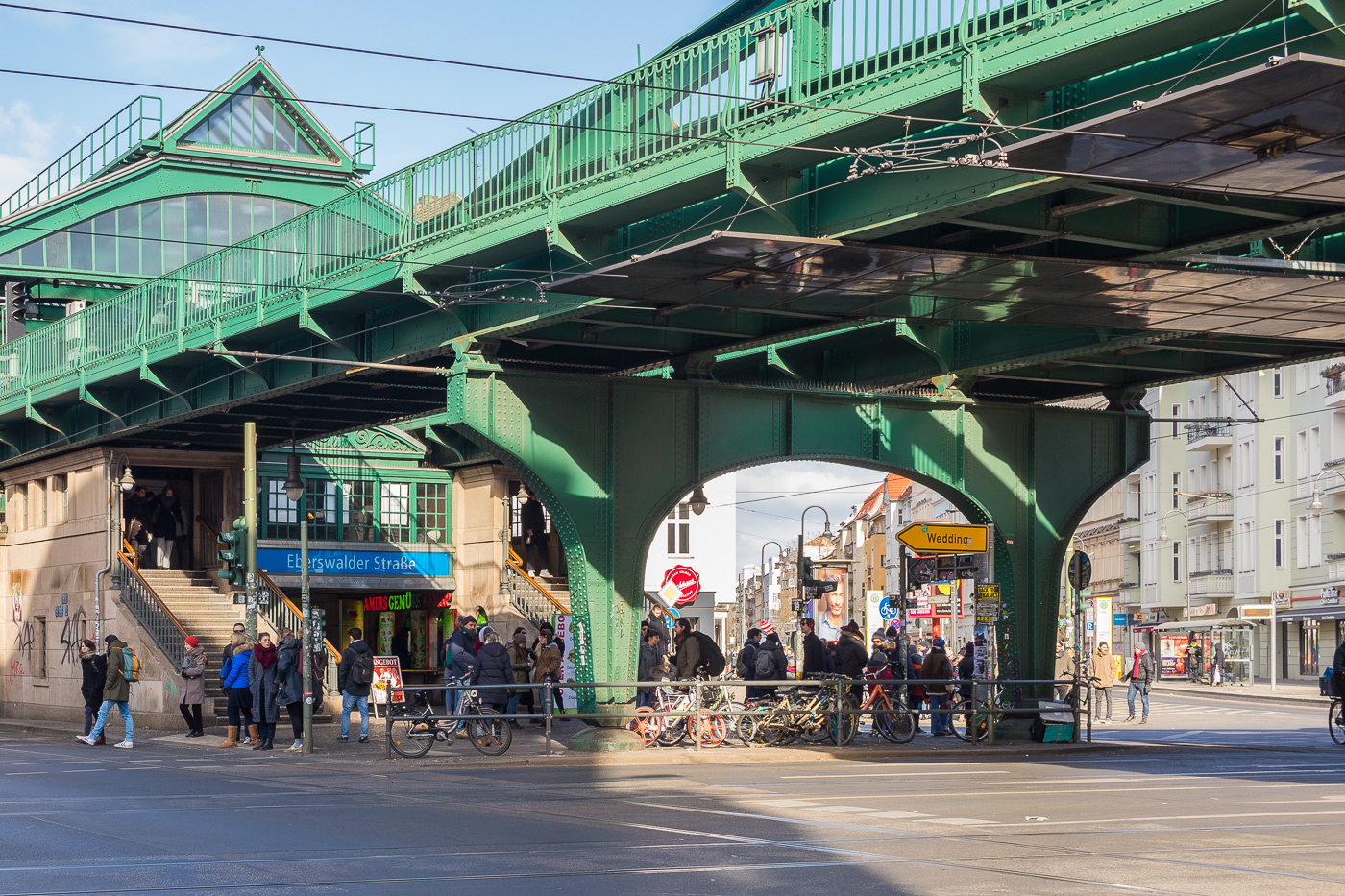 Eberswalder Straße U-Bahn station, entrance from the intersection Schönhauser Allee/Danziger Straße/Eberswalder Straße/Kastanienallee/Pappellallee, Berlin, 2018